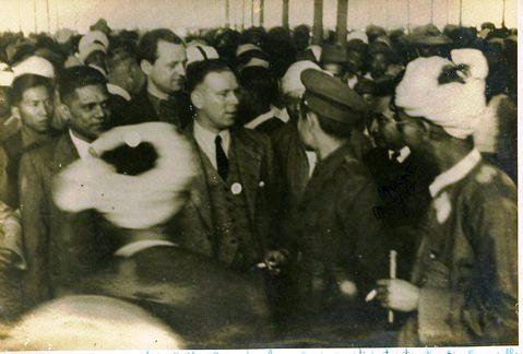 This photograph shows General Aung San shaking hands with Arthur Bottomley (then a Labour politician and Parliamentary Under-Secretary of State for Dominion Affairs). Behind Bottomley is Sir Eric Mastig, a constitutional expert, U Pe Khin on left, Chin leader Vum Ko Hau on left behind U Pe Khin, and Sao Shwe Thike (back to camera).